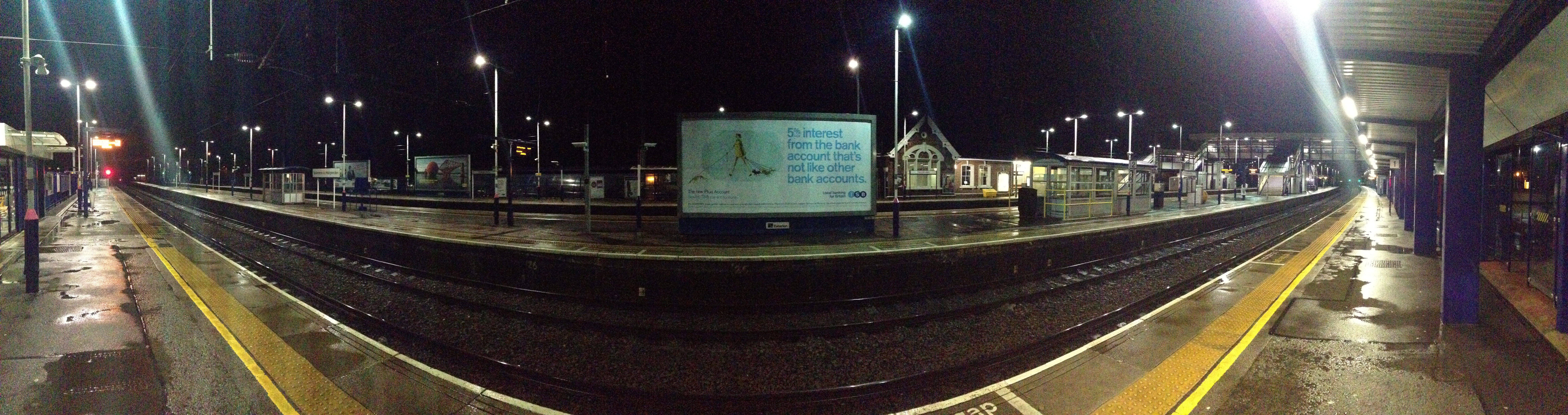 Panoramic View of Harpenden Station